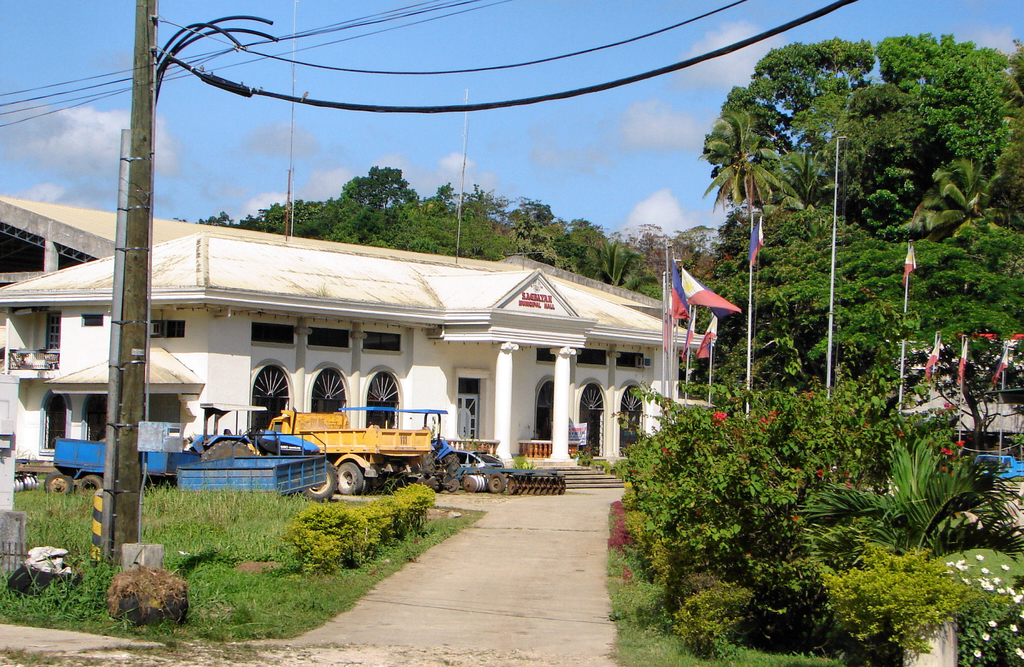 Municipal Hall of Sagbayan, Bohol, Philippines